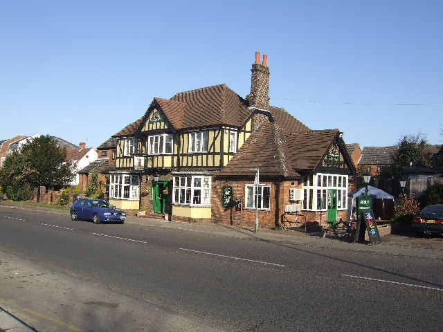 The Boot, Baldock Greene King beers